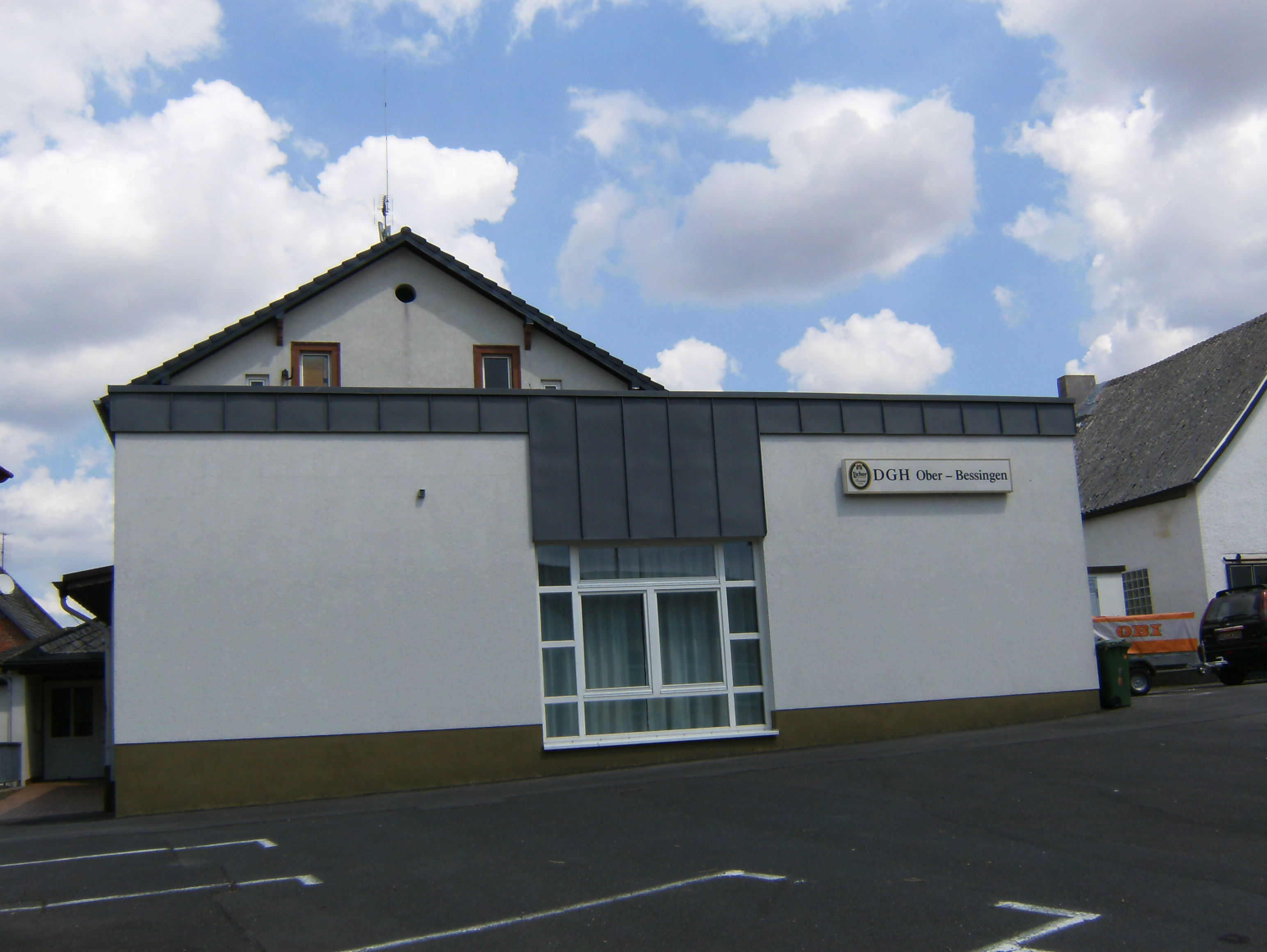 Lich-Ober-Bessingen (Hesse), Dorfgemeinschaftshaus.